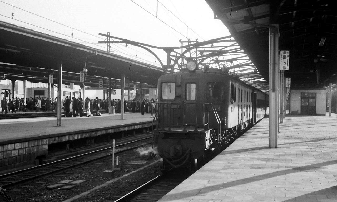 JNR Class EF56 electric locomotive EF56 4 at Ueno Station